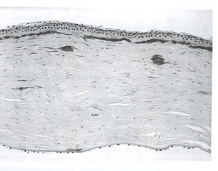 Lattice corneal dystrophy type II. Black and white light micrograph showing deposits of amyloid in cornea. Congo red stain (Reproduced with permission from Klintworth [2]). Klintworth Orphanet Journal of Rare Diseases 2009 4:7